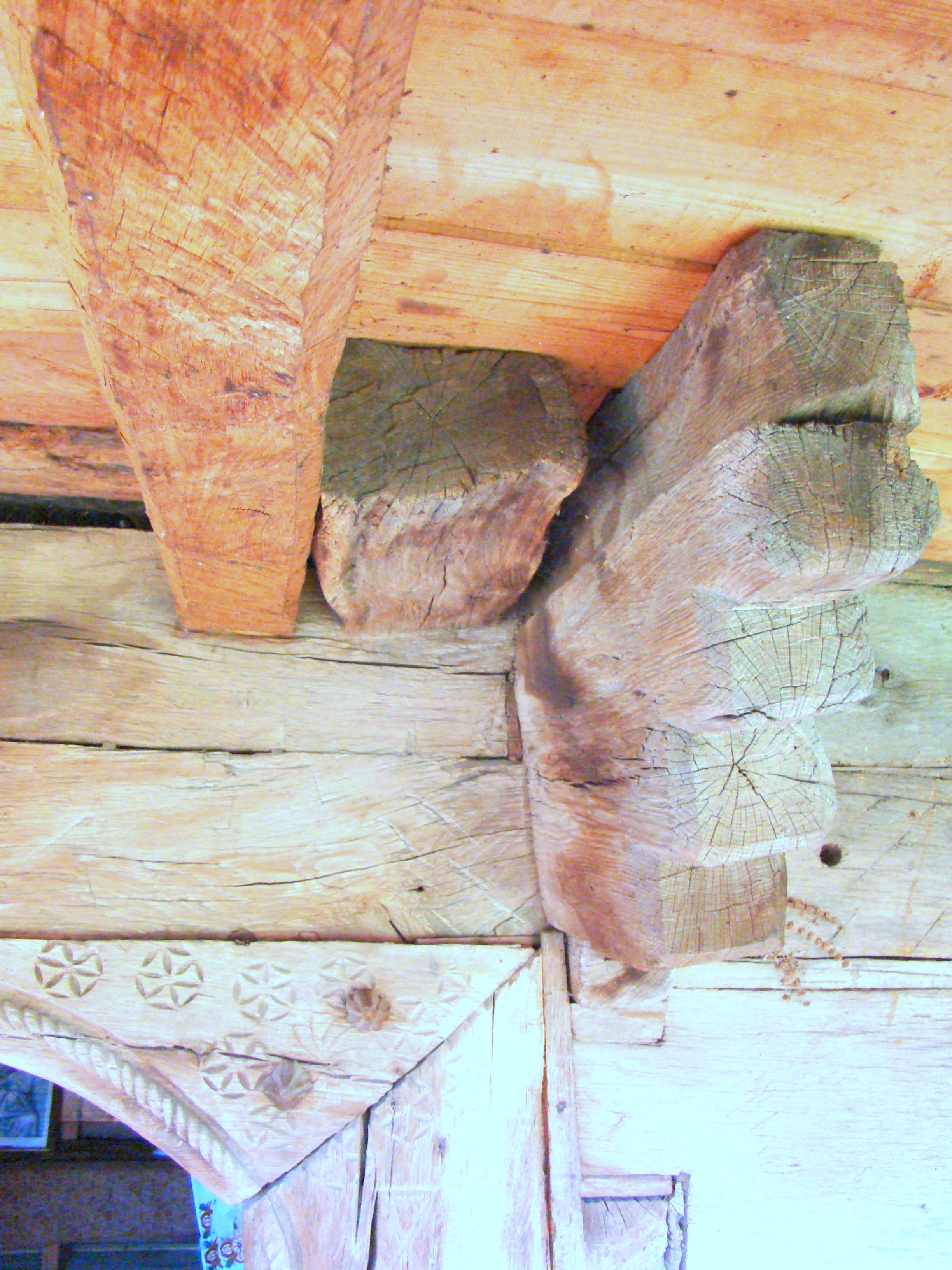 Wooden church in Sărata, Bistrița-Năsăud county